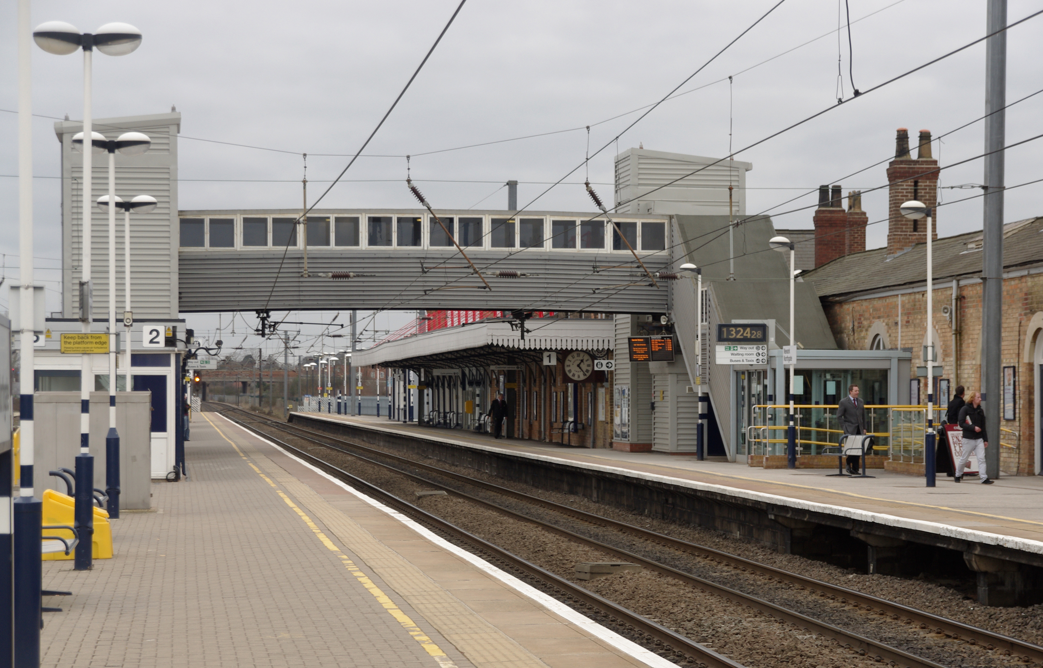 Newark North Gate railway station, looking south.